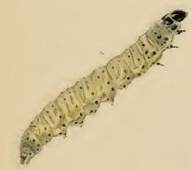 Stainton’s Natural History of the Tineina (1855–1873): Anacampsis temerella